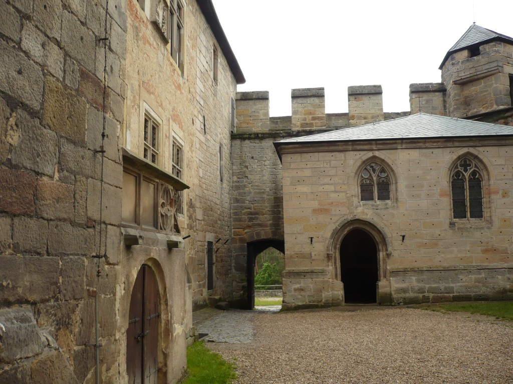 Castle Kost - courtyard